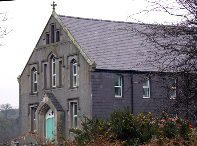 Old chapel in Sling. Old chapel in Sling which has been converted for residential use